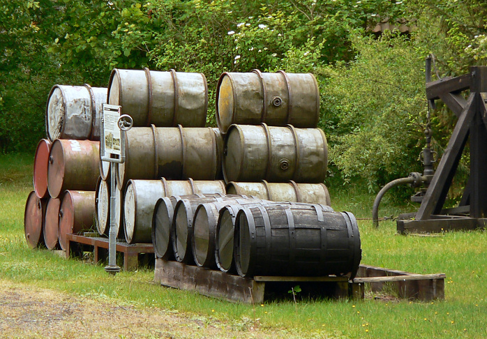 Oil barrels of different eras at the German Oil Museum, Wietze, Lower Saxony